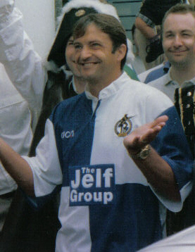 Ex-Bristol Rovers legend Gary Mabbutt once again dons the famous blue and white quarters at the grand opening of Pirate Leisure, Rovers new club shop in Gloucester Road on July 27th 1997. Gary made 148 appearances for Rovers between December 1978 and May 1982 before being sold to Tottenham Hotspur for a bargain £105,000. He went on to play for Spurs for 16 years, including a spell in the England side in the 1980's.